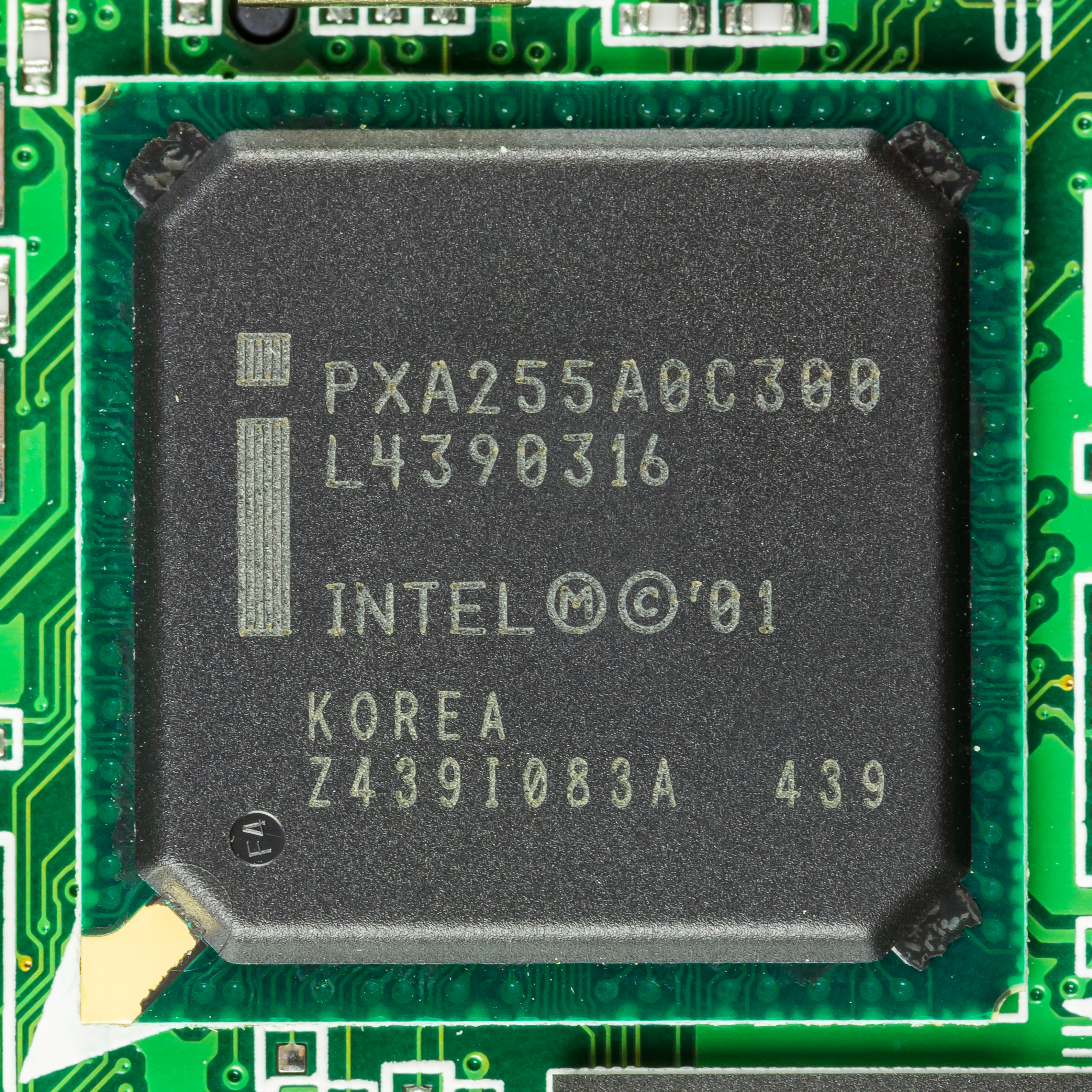 Typhoon MyGuide 3500 mobile - controller - Intel PXA255A0C300 - PXA255 XScale Processor. Package: PBGA